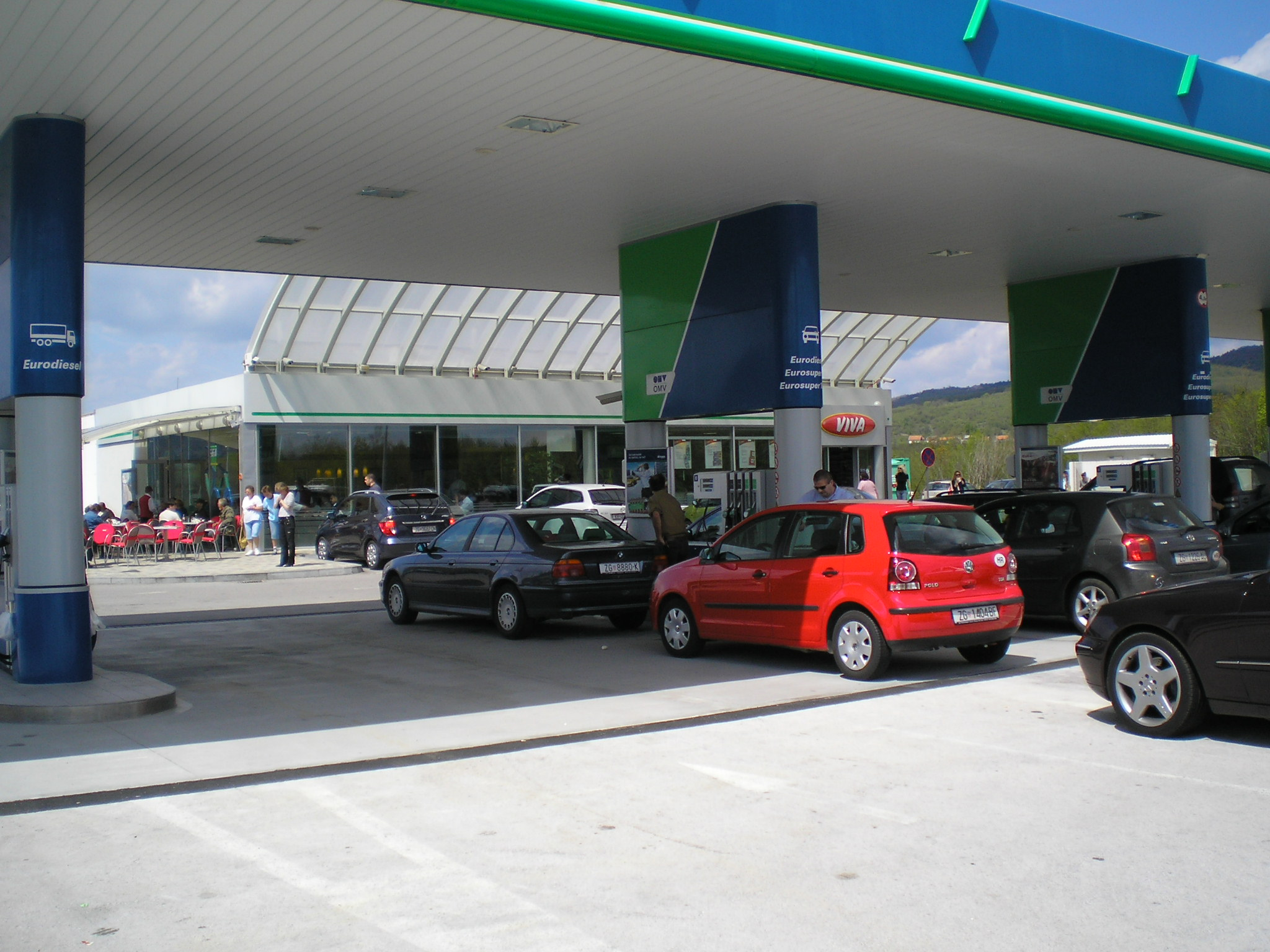 OMV gas station on Croatian A1 highway